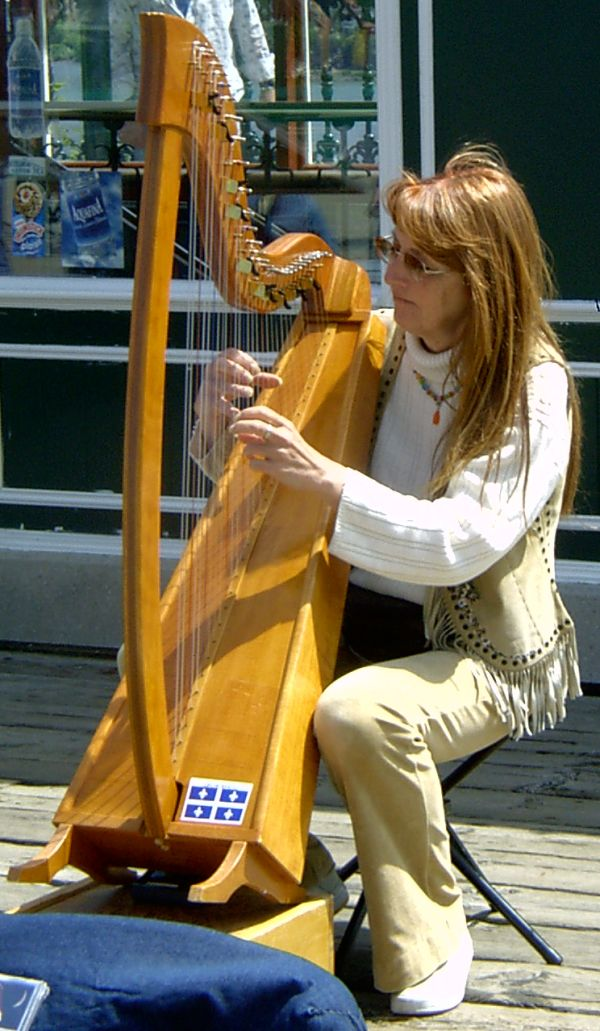 A street musician (a harpist) playing on a boardwalk next to the Chateau Frontenac in Quebec City.